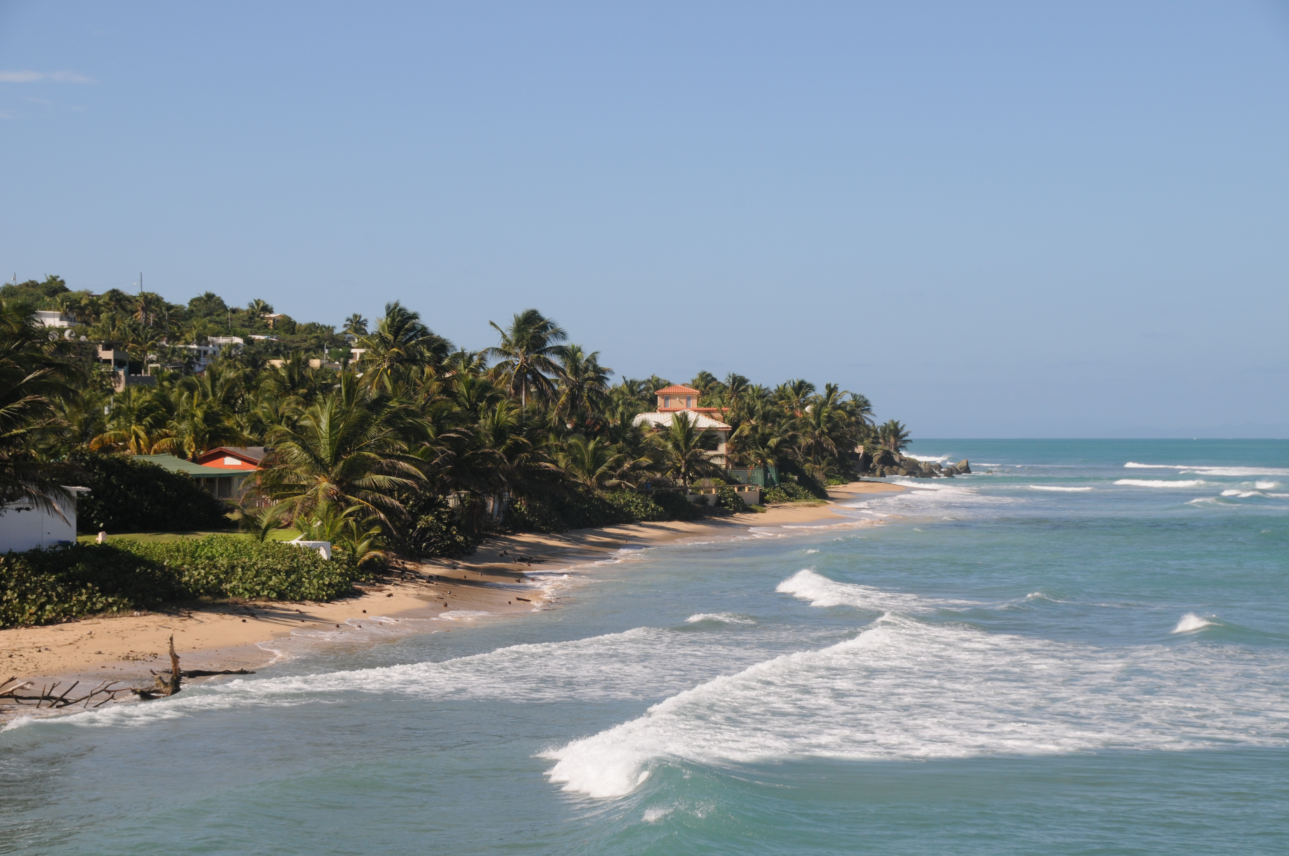 Puerto Diablo, Vieques, Puerto Rico - Southern end of the Bermuda Triangle